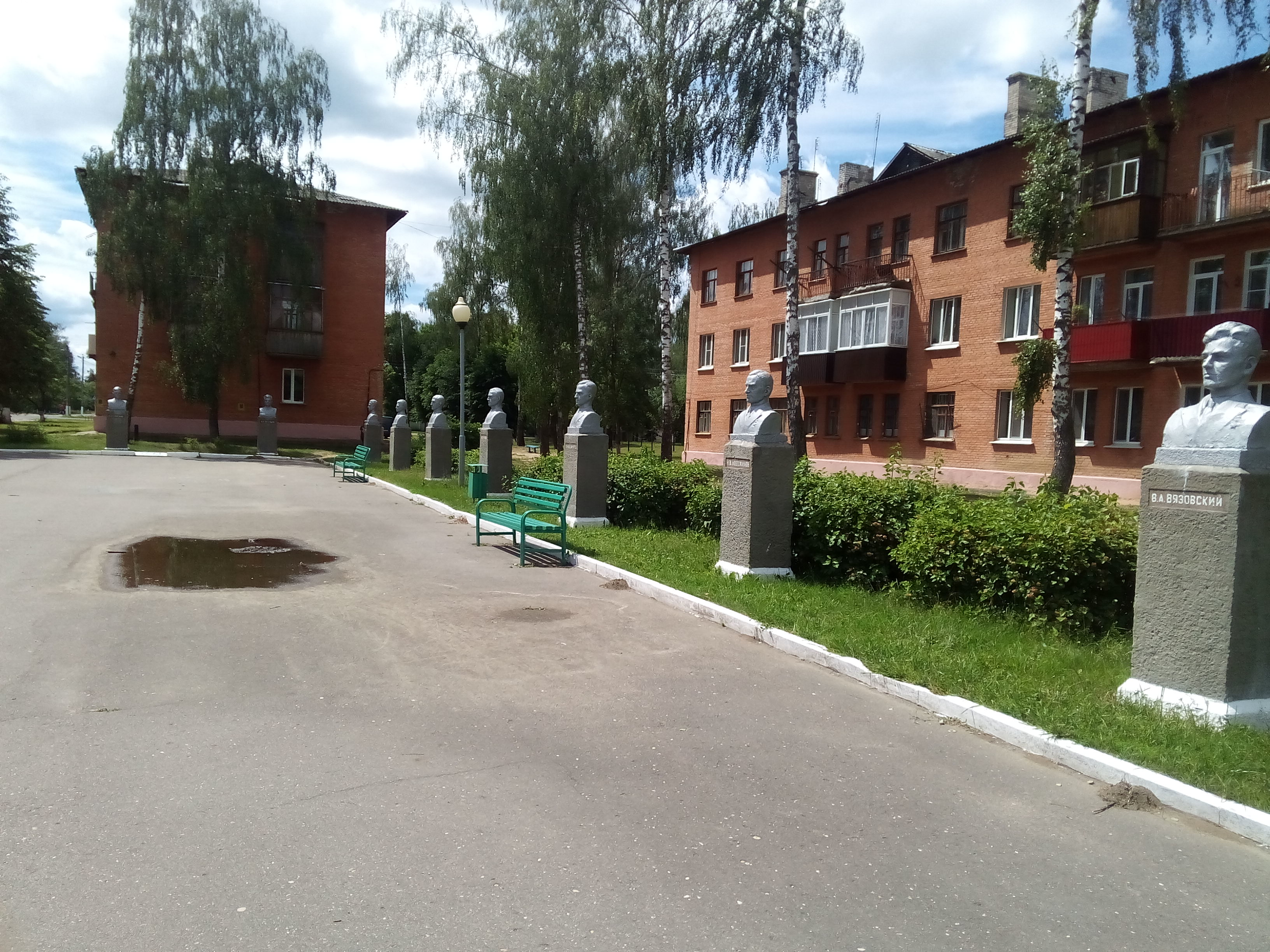 Military town Bykhov-1. Heroes Square